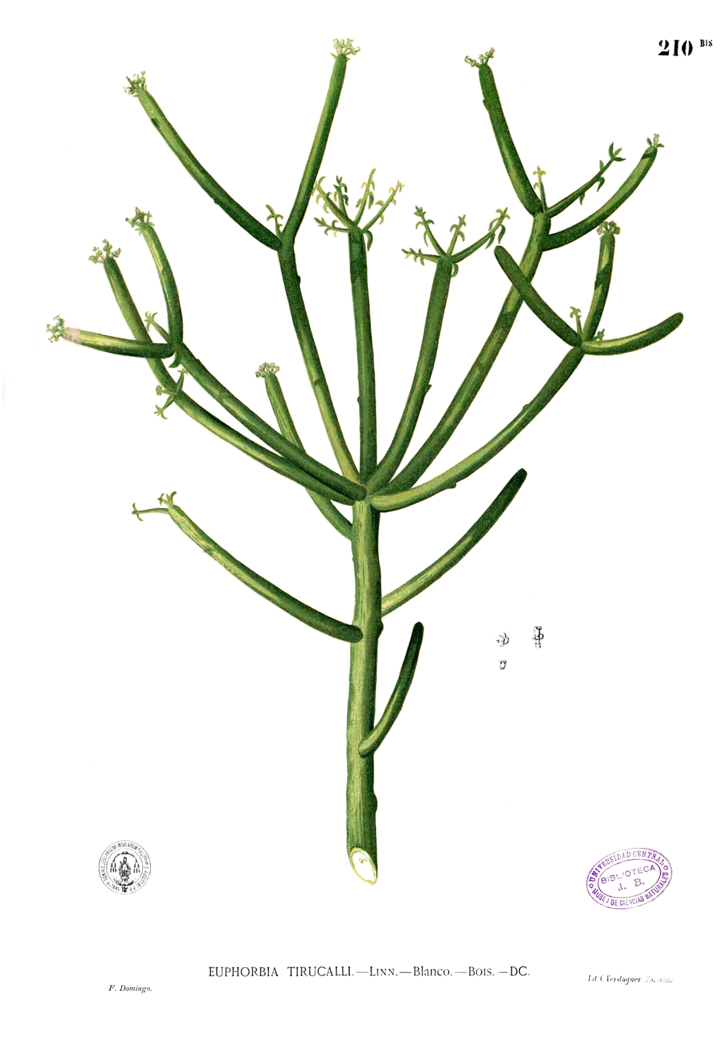 Plate from book